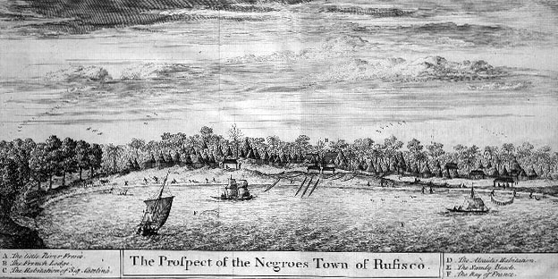 Représentation de Rufisco (Rufisque, Sénégal) dans A Description of the Coasts of North and South Guinea and of Ethiopia inferior, vulgarly Angola... with an appendix, being a general account of the first discoveries of America in the fourteenth century... and a geographical, political, and natural history of the Antilles-Islands.. de Jean Barbot, 1732